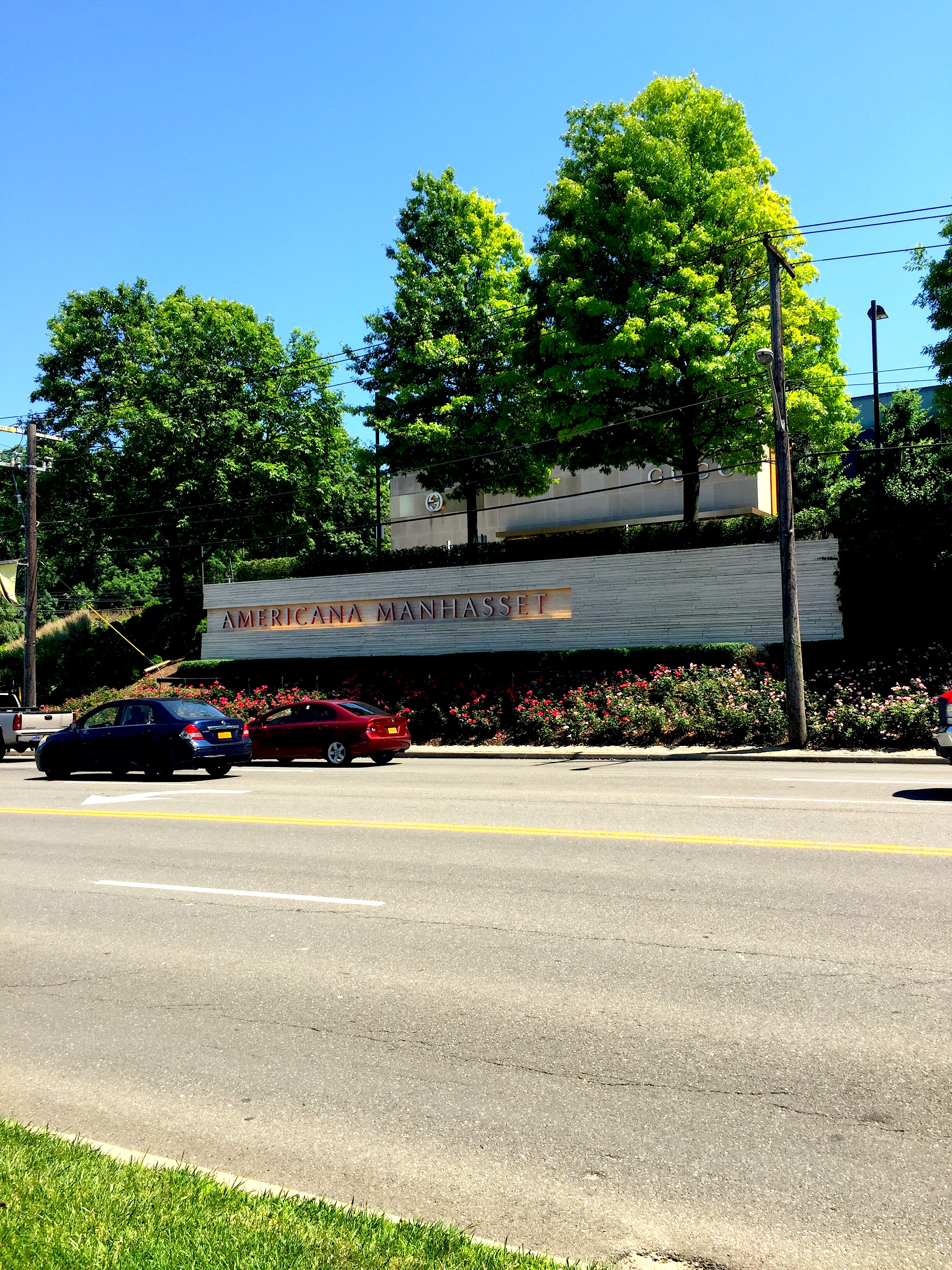 The entrance of the Americana Manhasset.